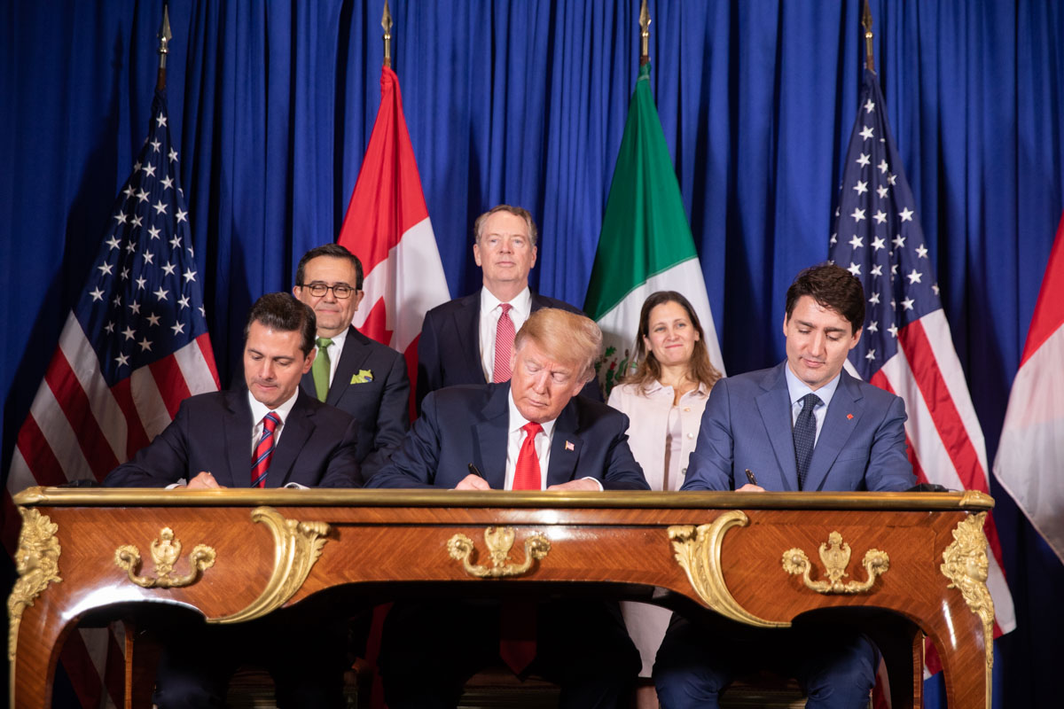 President Donald J. Trump is joined by Mexican President Enrique Pena Nieto and Canadian Prime Minister Justin Trudeau at the USMCA signing ceremony Friday, Nov. 30, 2018, in Buenos Aires, Argentina.